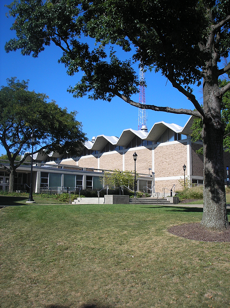 Trees Hall at the University of Pittsburgh